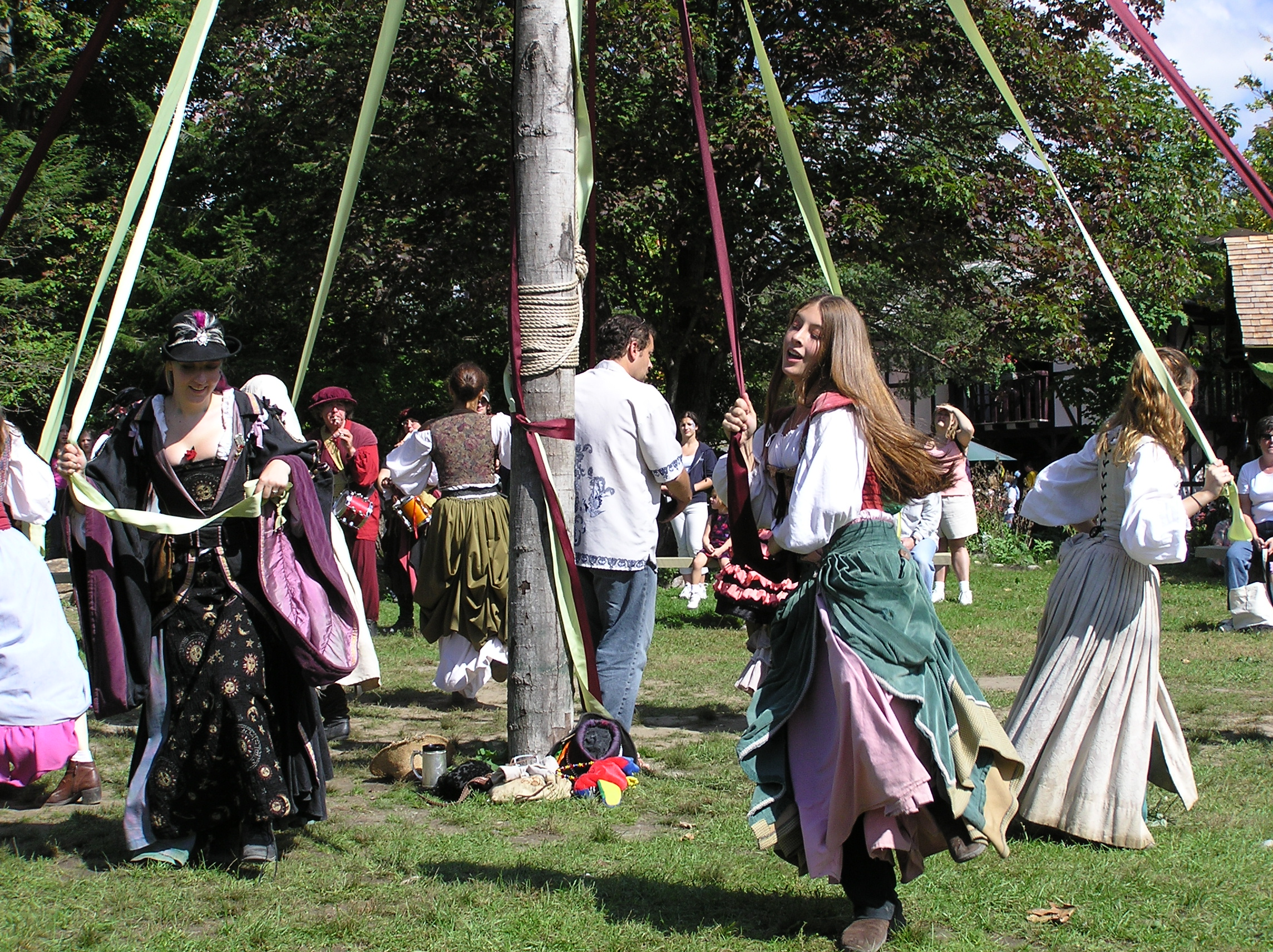 Photo I took of the 2004 New York Renaissance Faire in the Maypole Meadow.